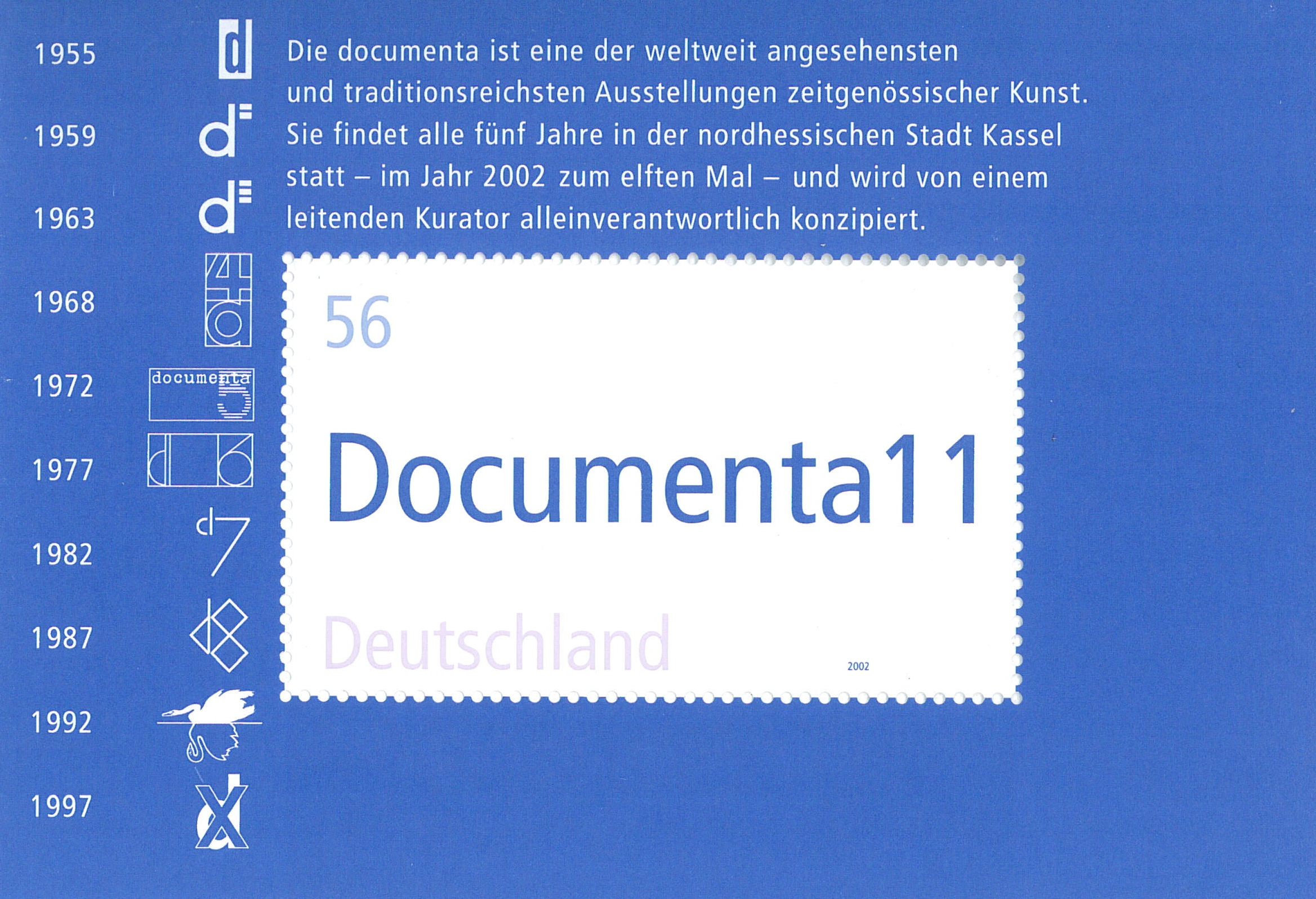 German stamp for the XI documenta 2002